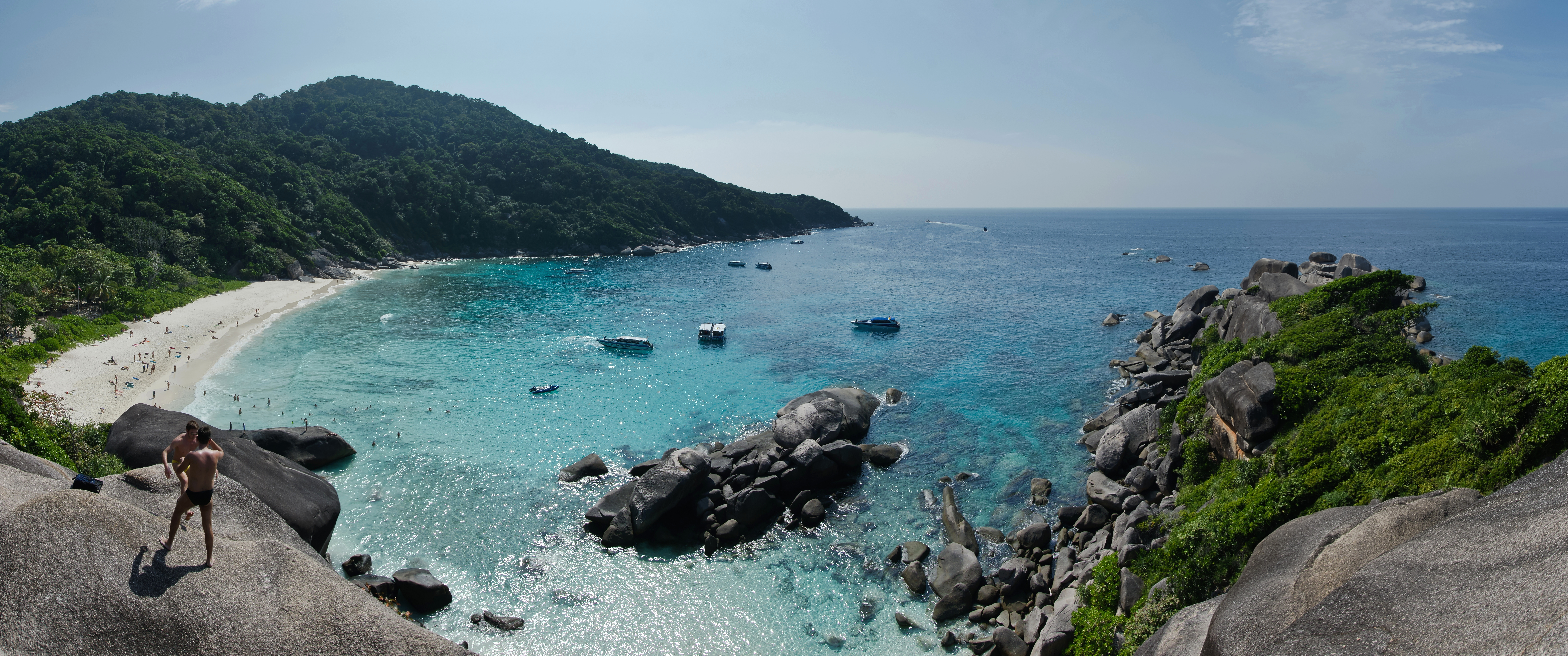 Panorama from Ko Similan over the „Ao Kuerk“ bay, Similan-Island, Thailand